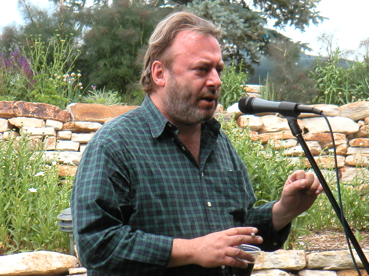 Christopher Hitchens was the featured speaker for the June 25, 2005 Alcohol, Tobacco, and Firearms Party hosted by the Independence Institute in Colorado.